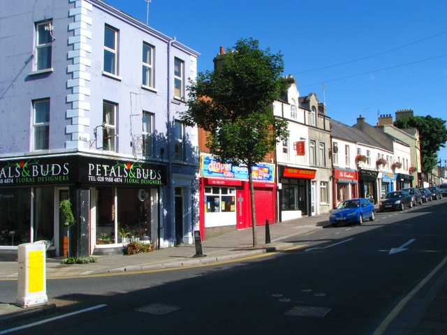 High Street, Donaghadee Looking up High Street on a bright afternoon.